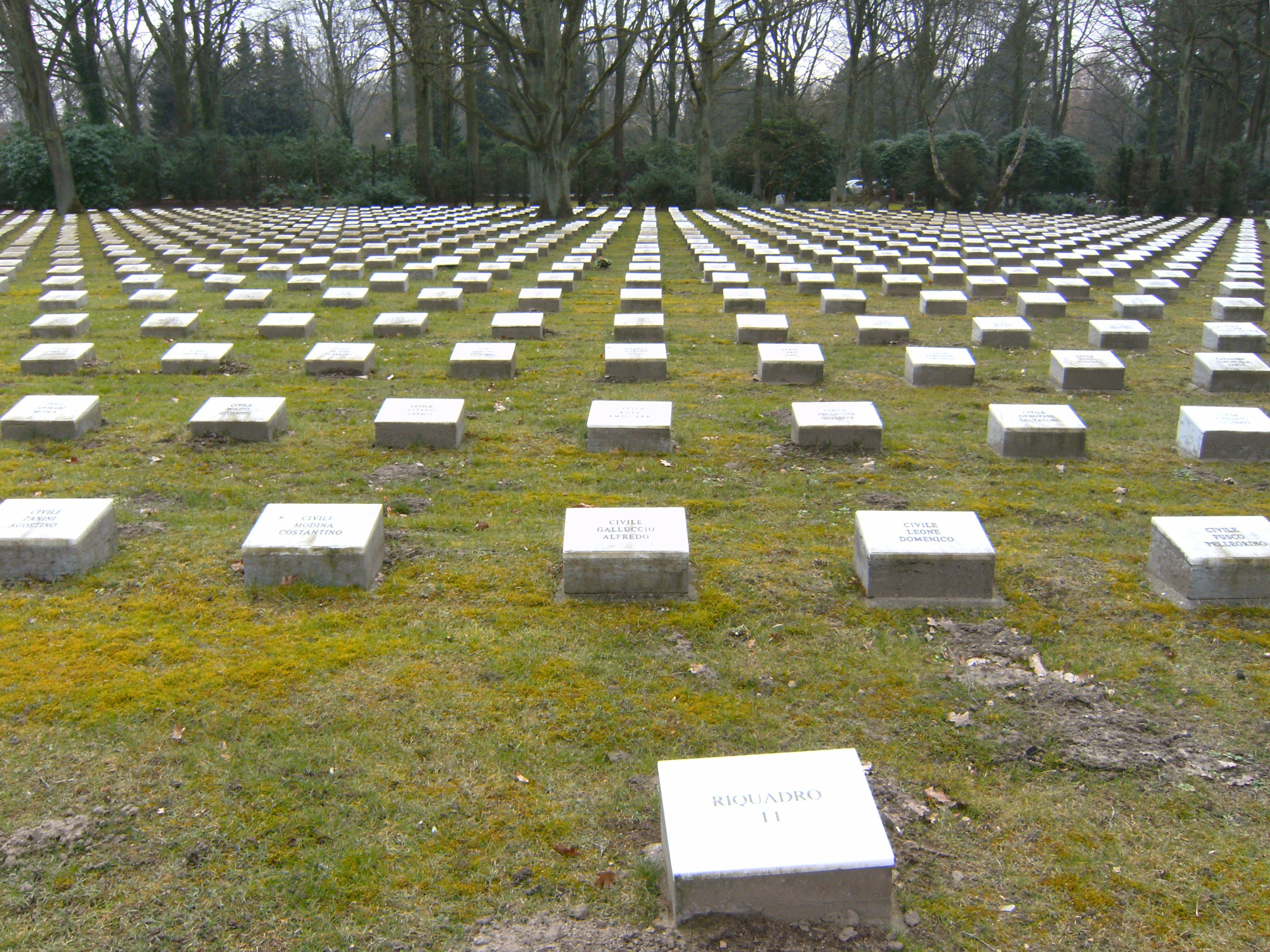 Grave field II of the five grave fields at the Italian war graves cemetery Hamburg-Öjendorf.